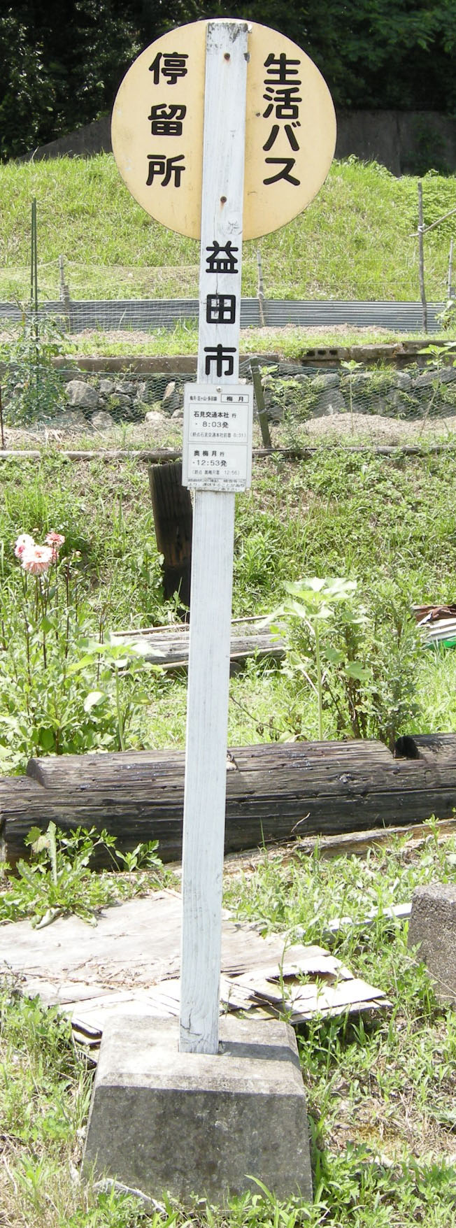 Masuda City Seikatsu Bus Umetsuki Bus Stop